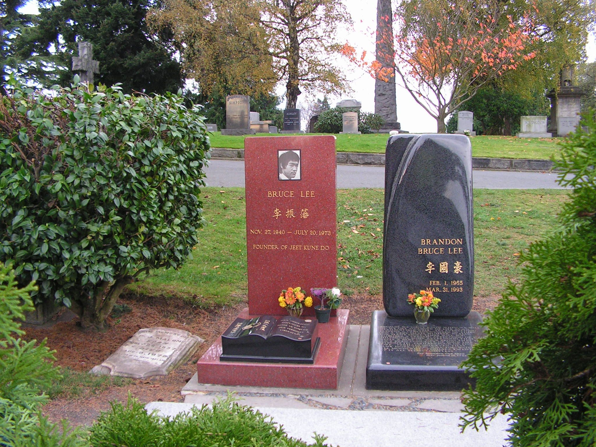 Grave stones of Bruce and Brandon Lee at Lake View Cemetary in Seattle, WA